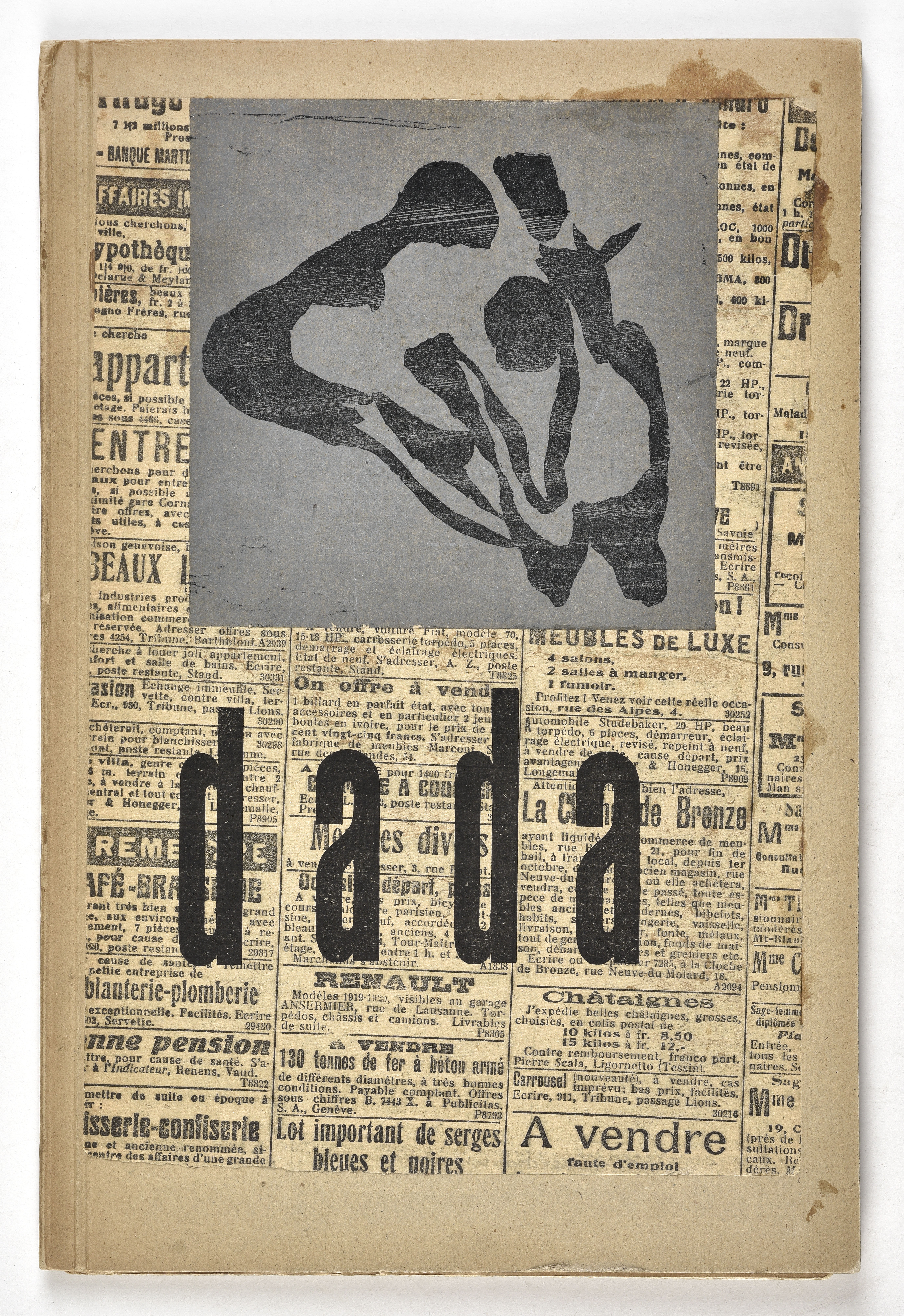 Jean Hans Arp, bois gravé et collage pour la couverture de Dada 4-5 (Tristan Tzara dir.), Zurich, 1919